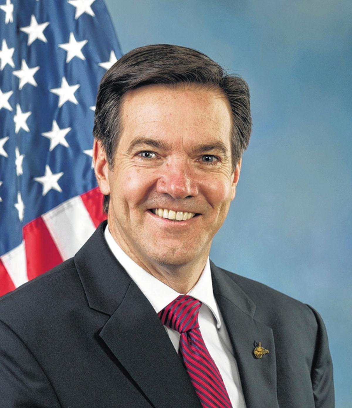 Evan Jenkins official congressional photo, 114th Congress